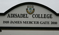 An entrance to Adisadel College